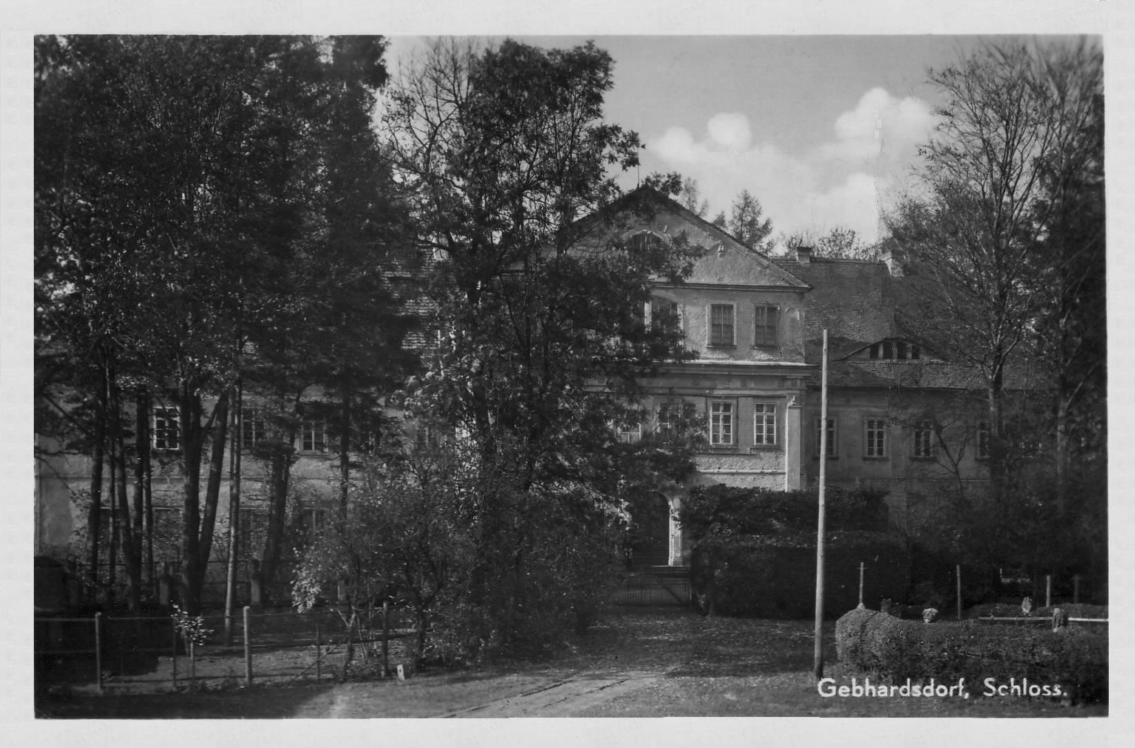 Palace in Giebułtów, Poland